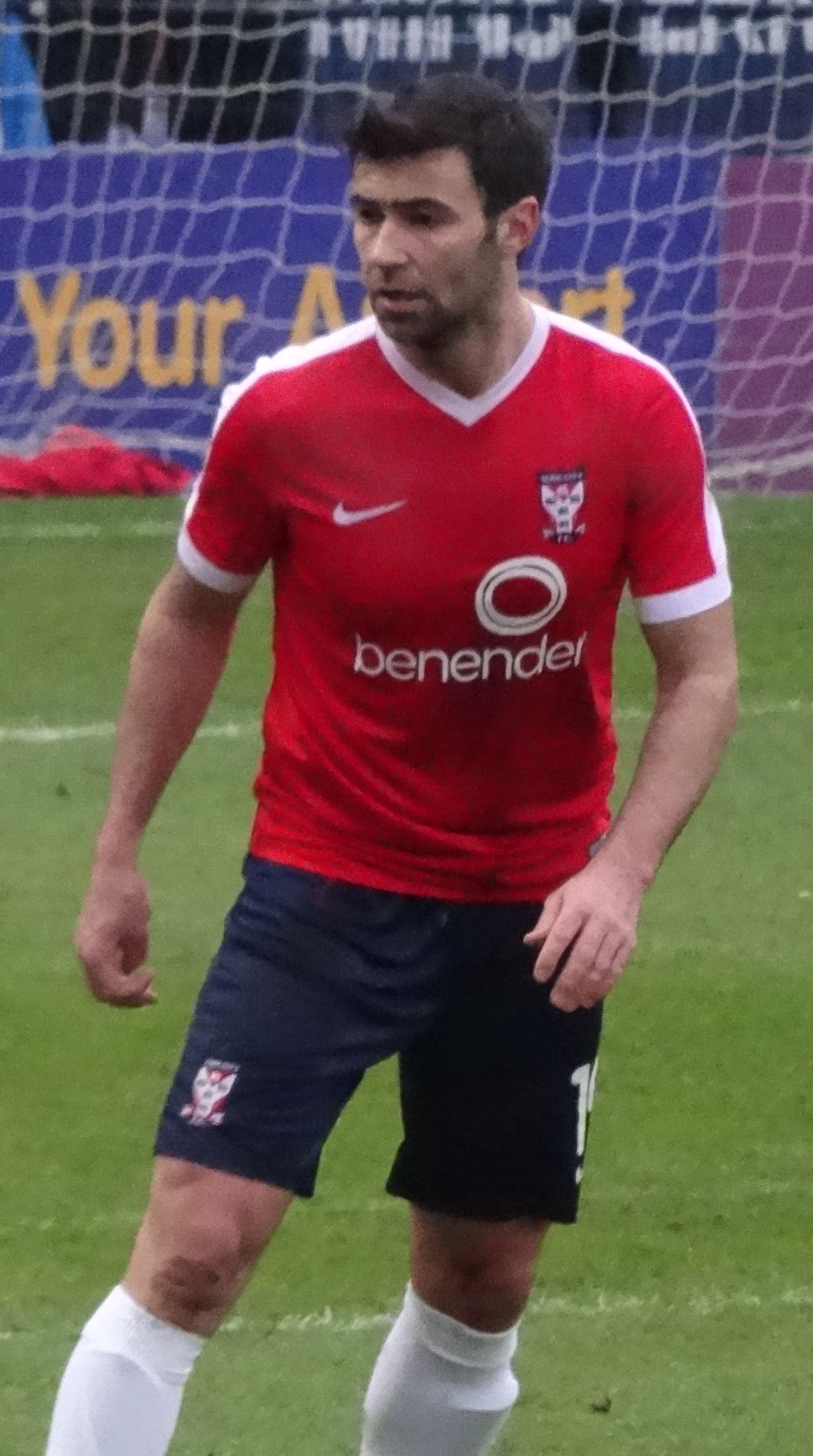 Simon Lappin playing for York City against Maidstone United at Bootham Crescent, York on 11 February 2017